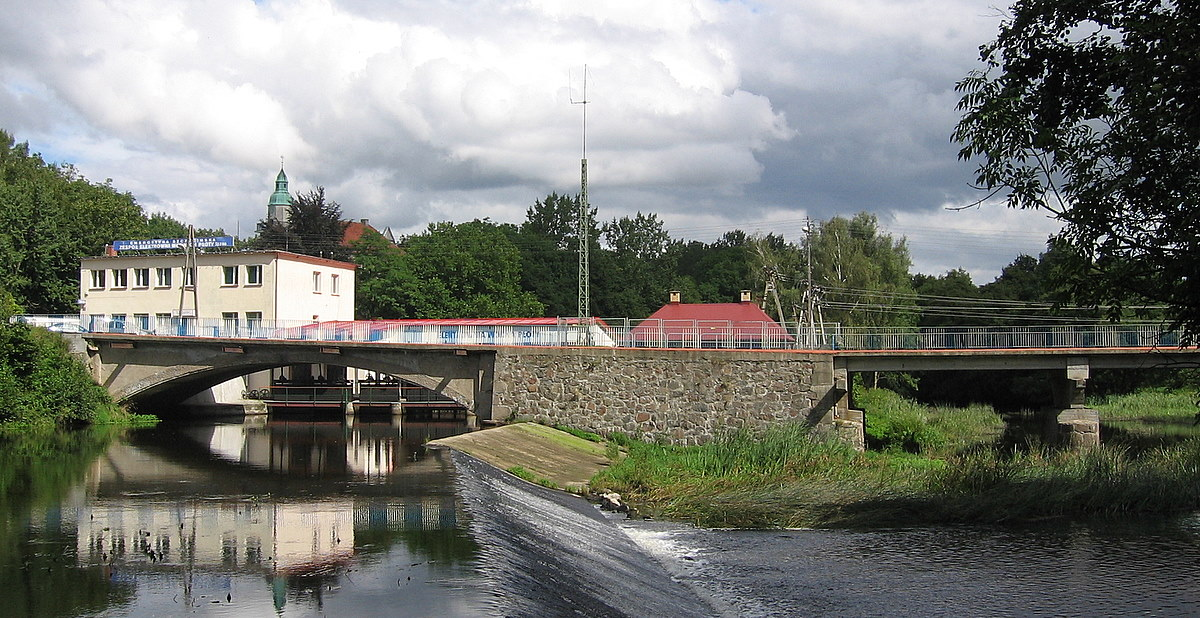 Bridge on Rega in Płoty, Poland